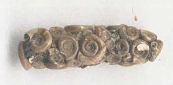 cropped version of other file